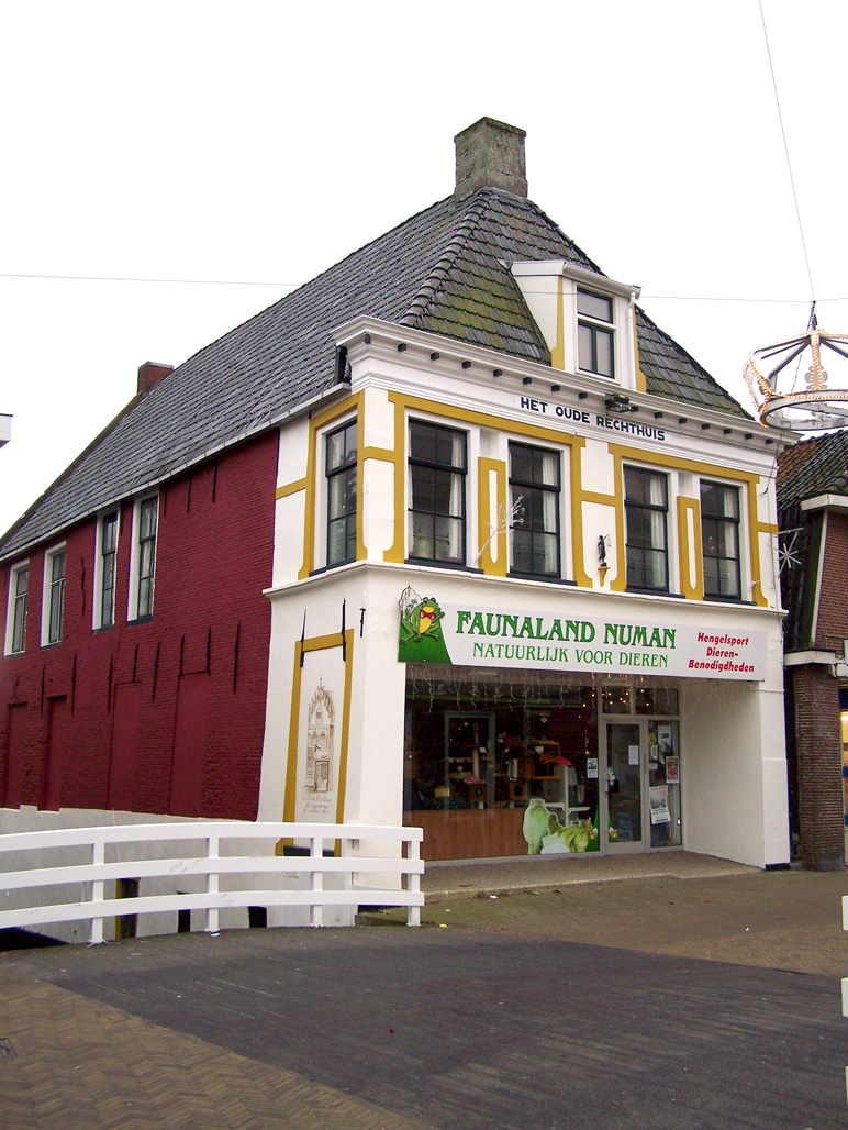 The old courthouse of Kollum. The painting on the side is made in 2006